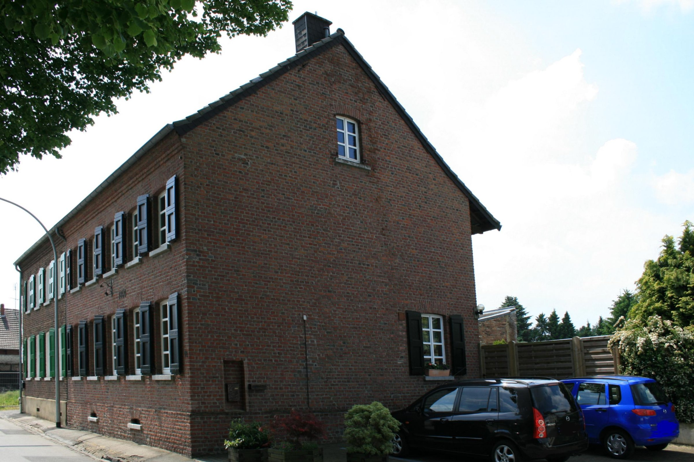 Cultural heritage monument No. H 017 in Mönchengladbach